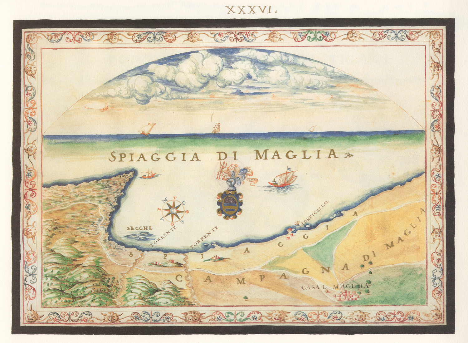 Spiaggia di Maglia - Francesco Basilicata - 1618